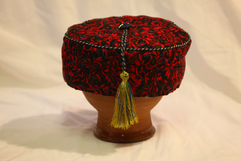 A nice Victorian smoking cap.